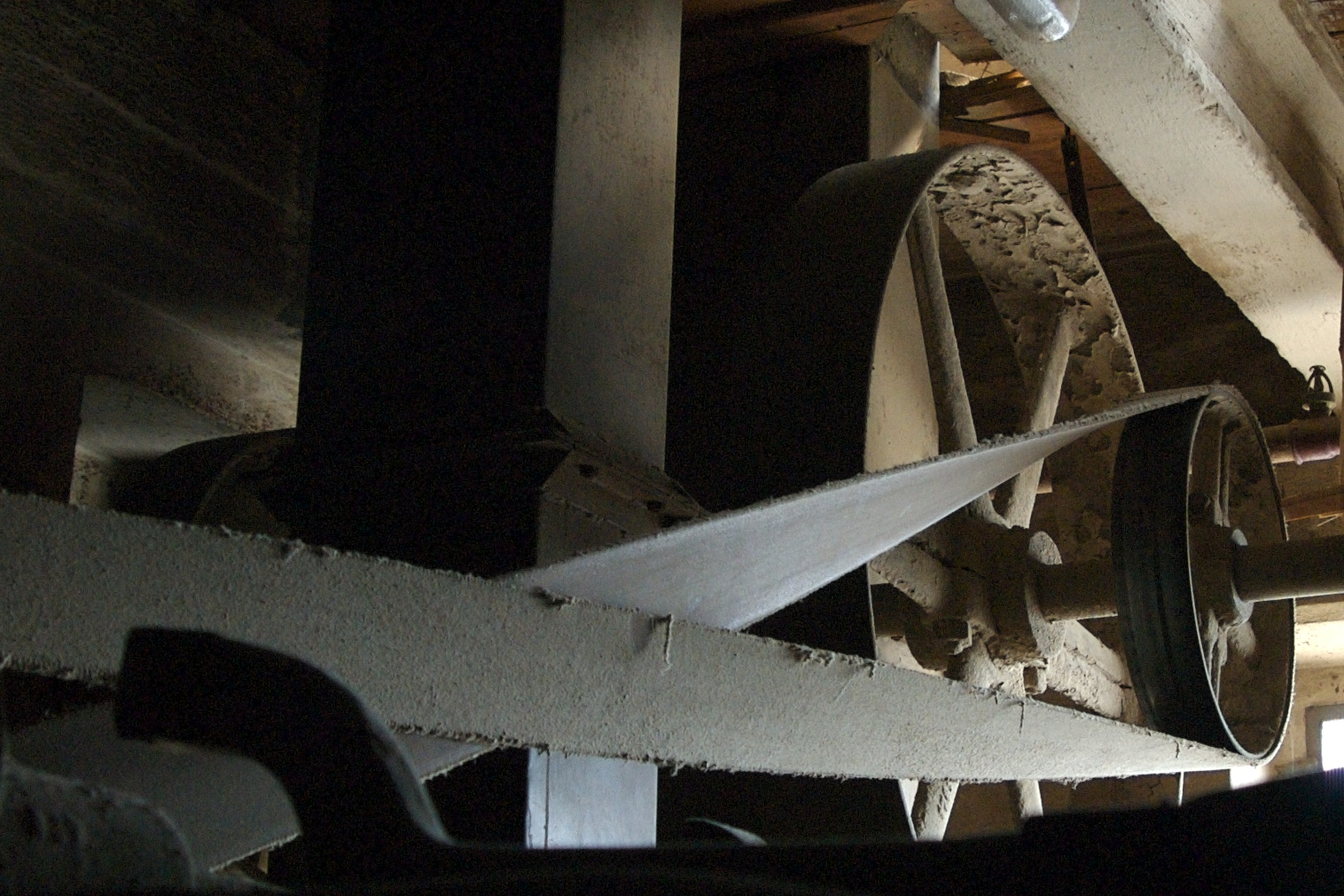 flat leather belt used to power an old machine